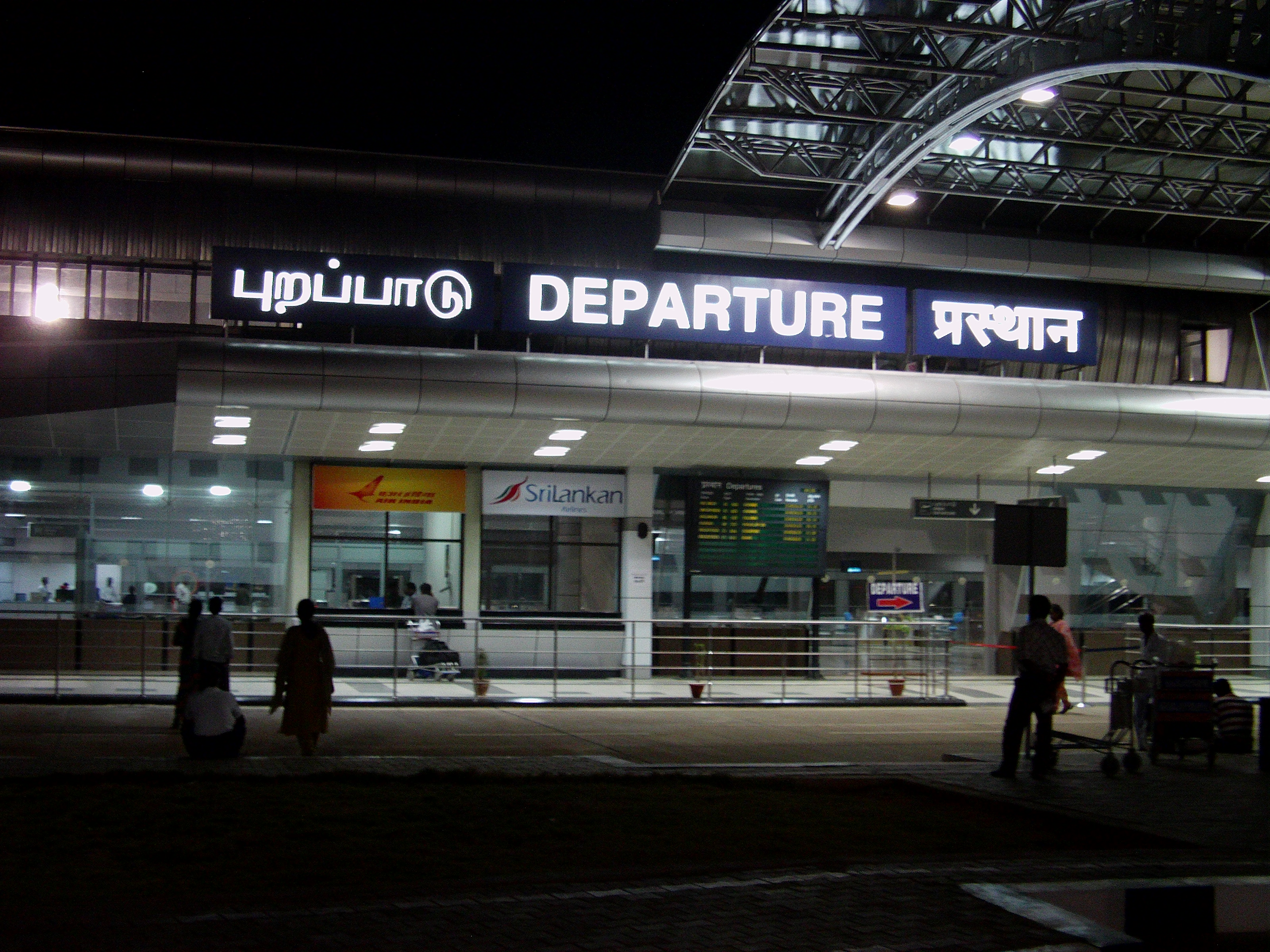 Trichy International Airport departure